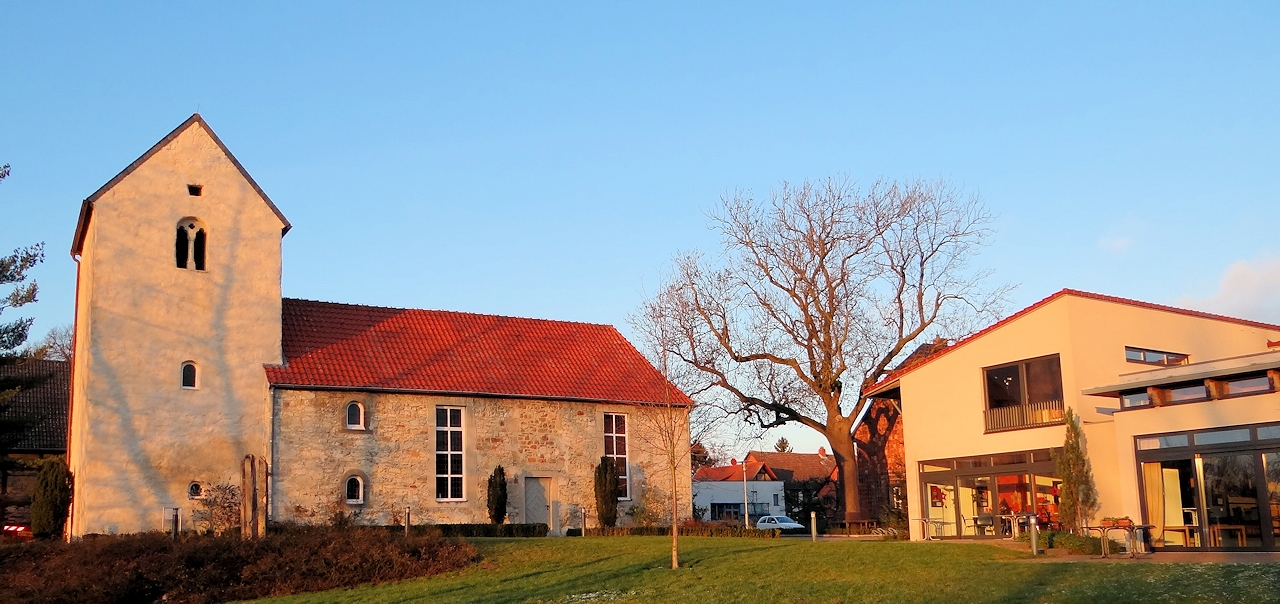 Ev.-luth. Church in Braunschweig-Stöckheim